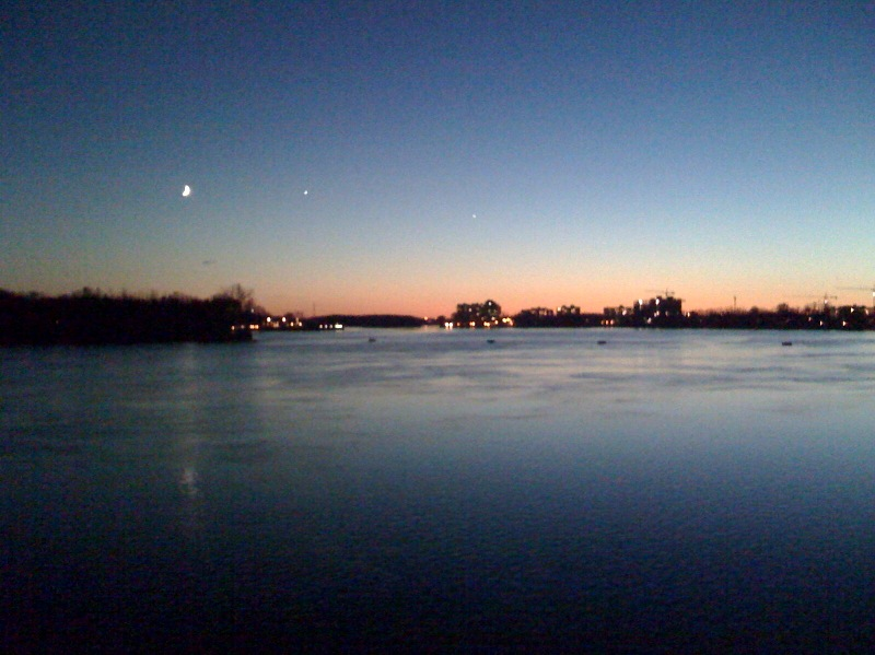 Rivière des Prairies - Left Montreal, Right Laval.